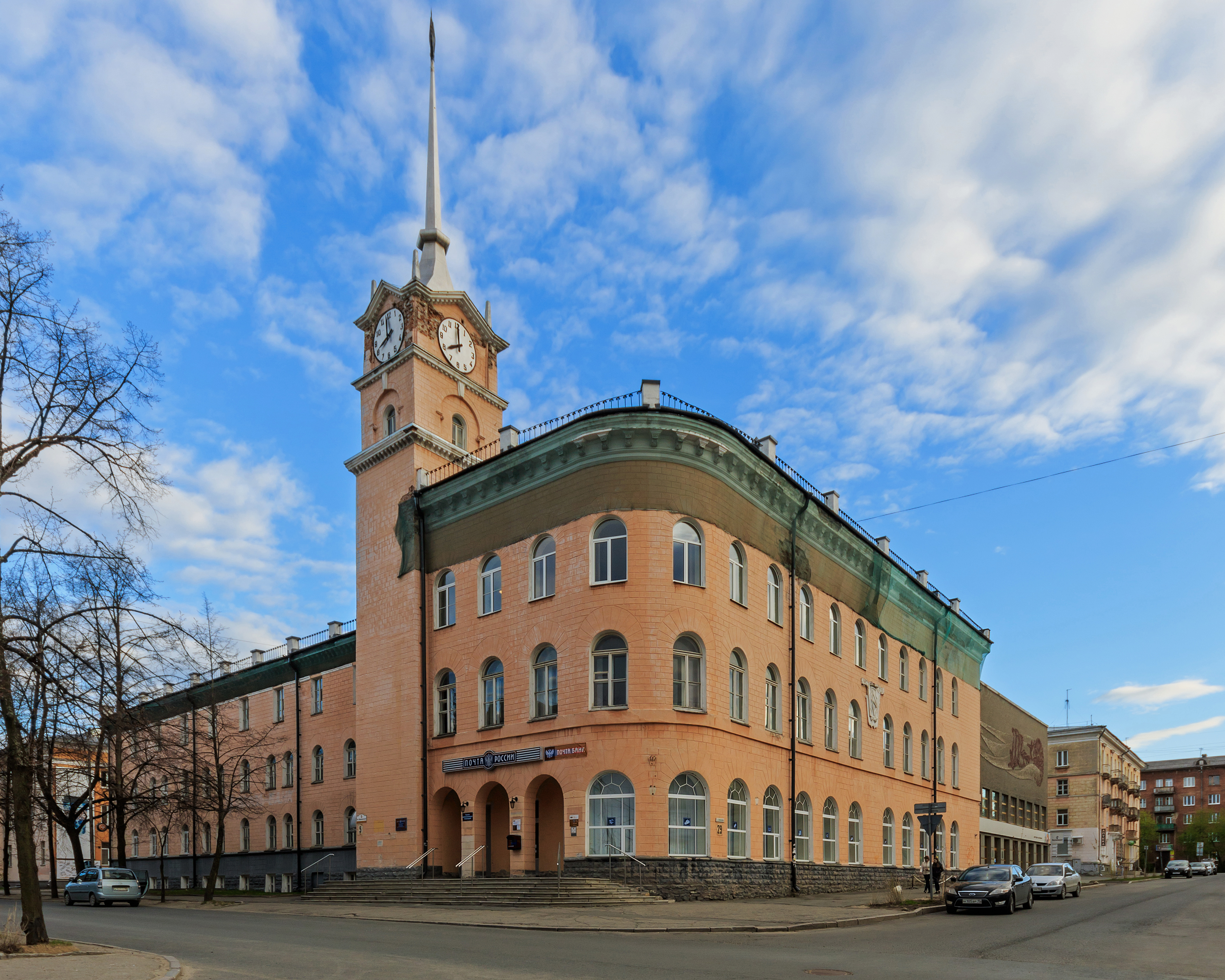 Main post office in Petrozavodsk, Republic of Karelia (Russia).